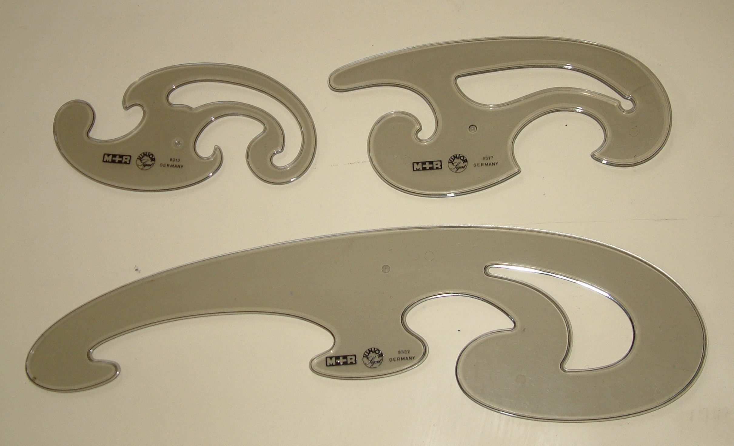 Skate (drawing tool), French curves